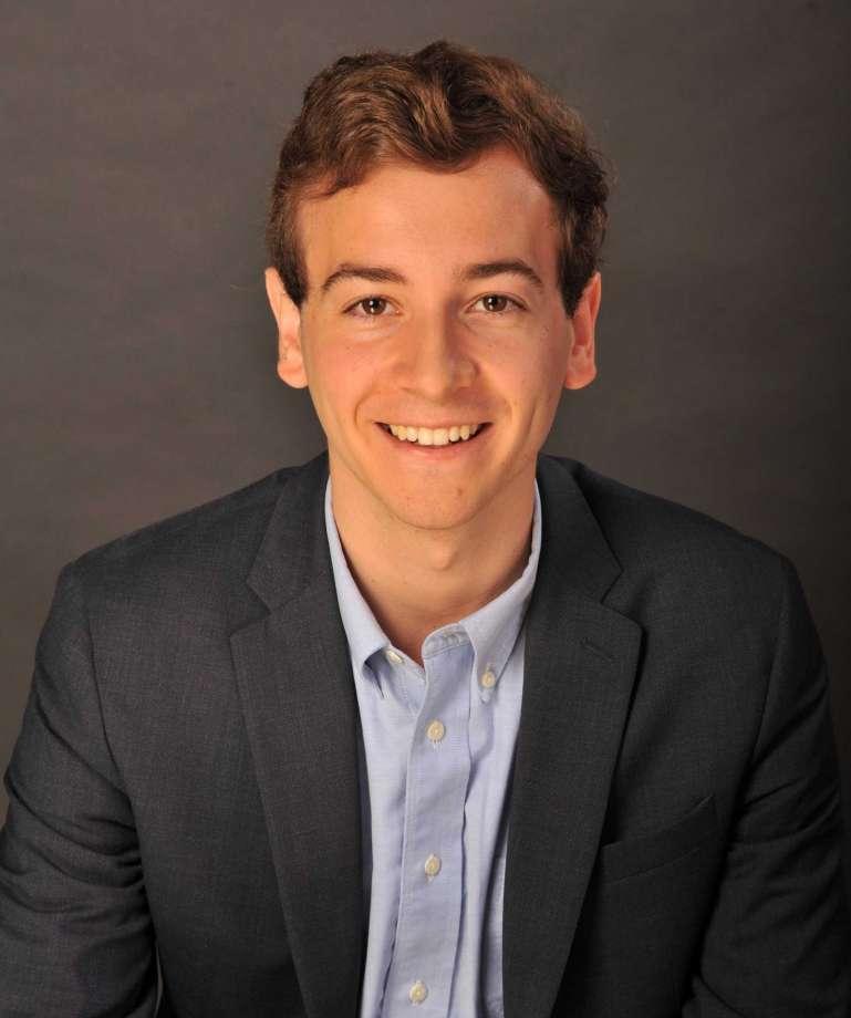 Provided by New Canaan News website